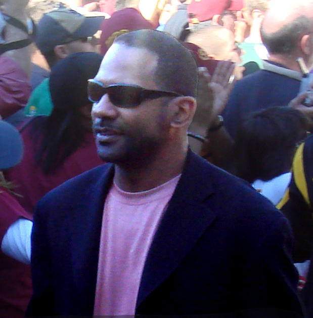 Todd McNair, walking with the rest of the USC Trojans football team towards Notre Dame Stadium.